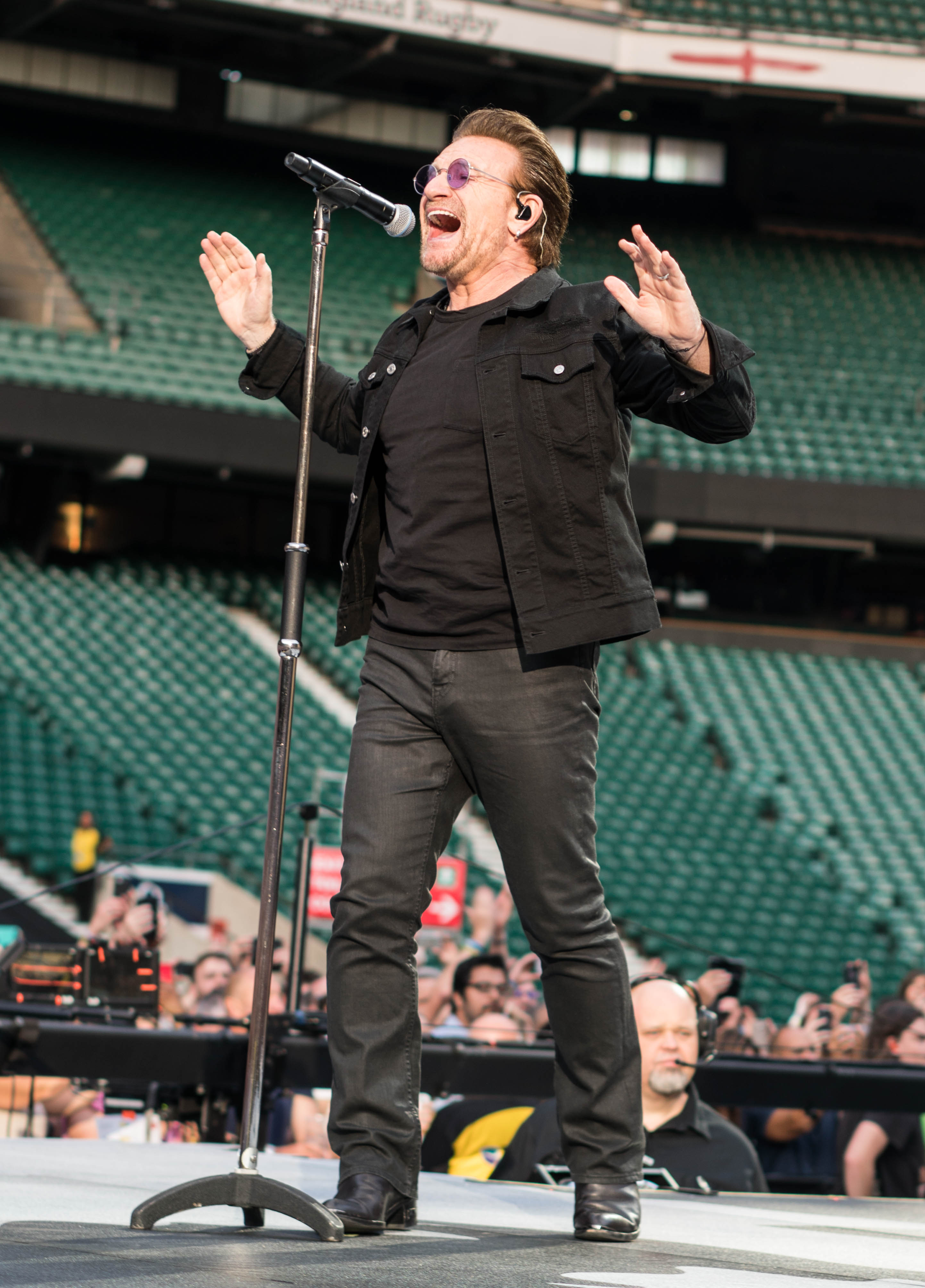 Taken on July 9, 2017 at the U2 concert in Twickenham Stadium in London, England.